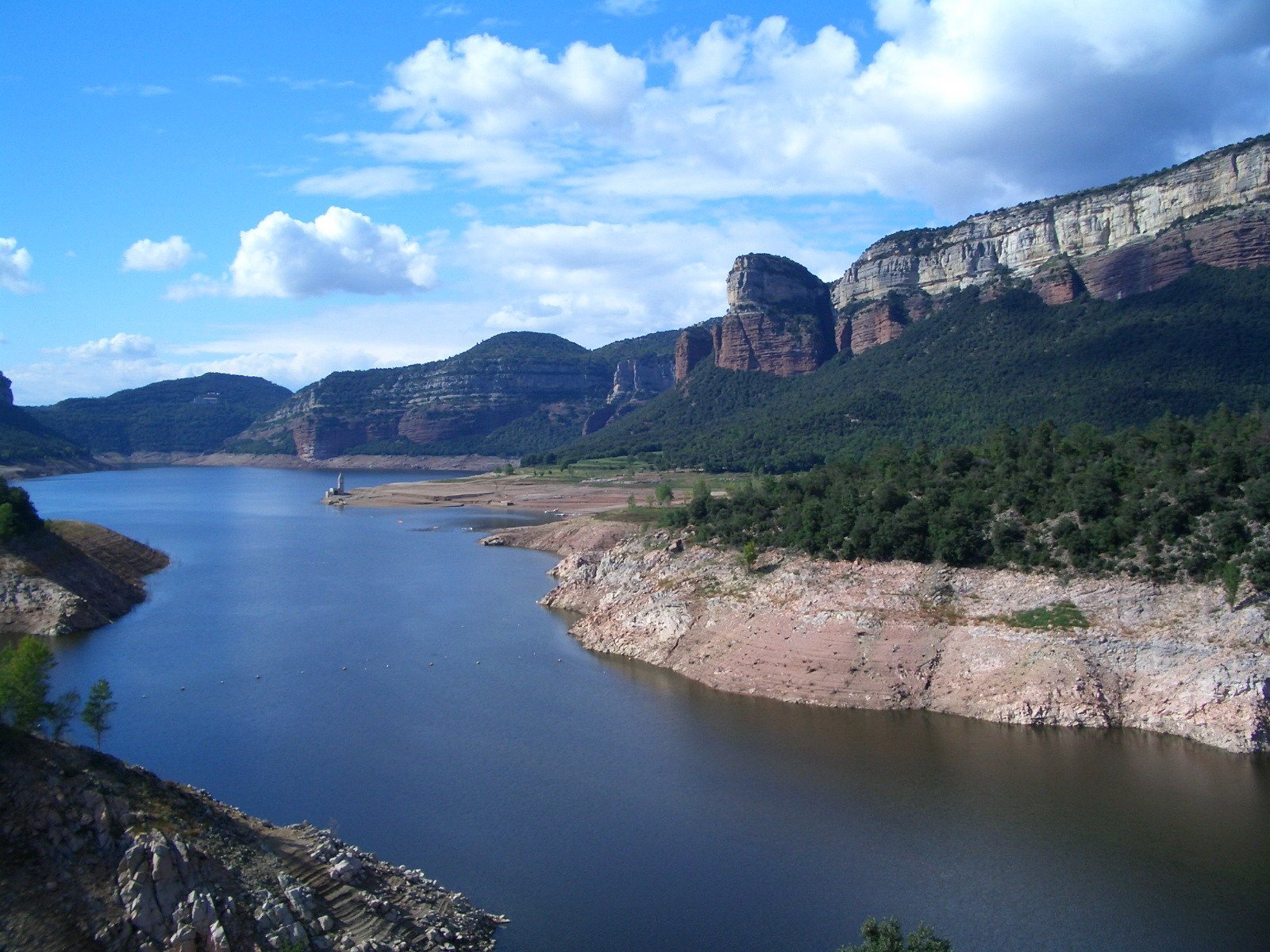 Picture of the Pantà de Sau, Catalonia, Europe